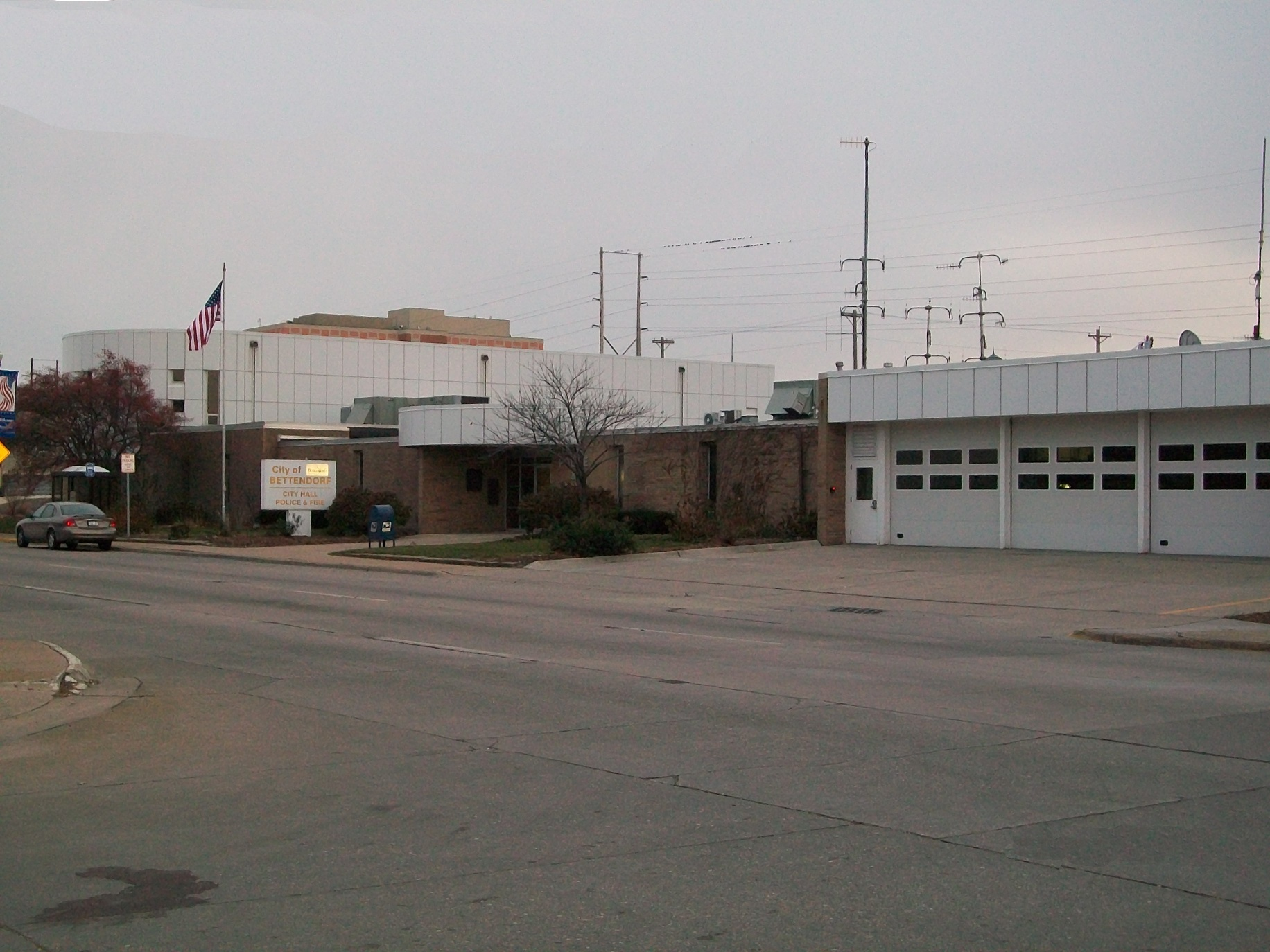 Bettendorf, Iowa city hall